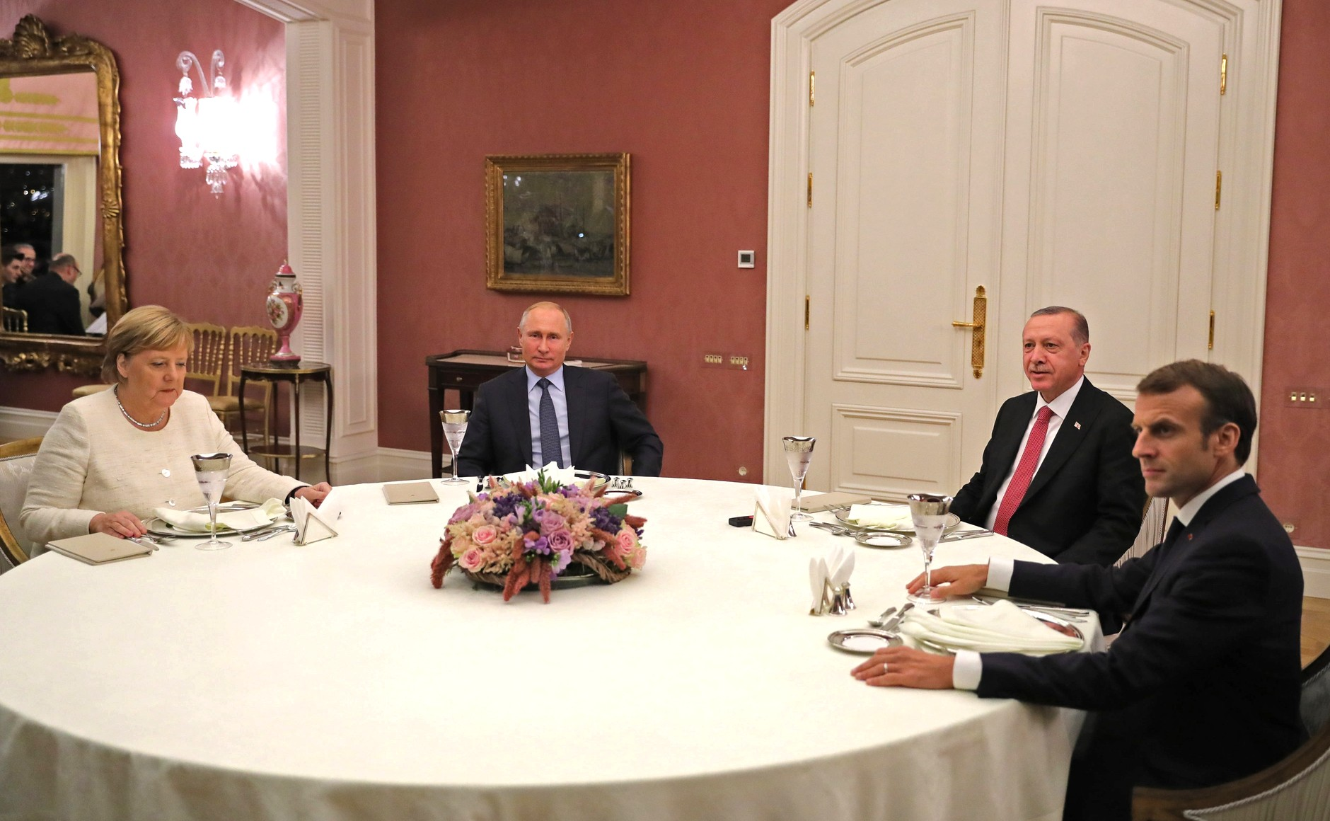 Federal Chancellor of Germany Angela Merkel, President of Russia Vladimir Putin, President of Turkey Recep Tayyip Erdogan and President of France Emmanuel Macron during a working dinner, İstanbul, Turkey